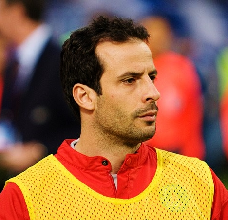 Ludovic Giuly